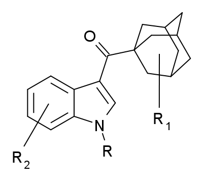 General structure of adamantoylindoles